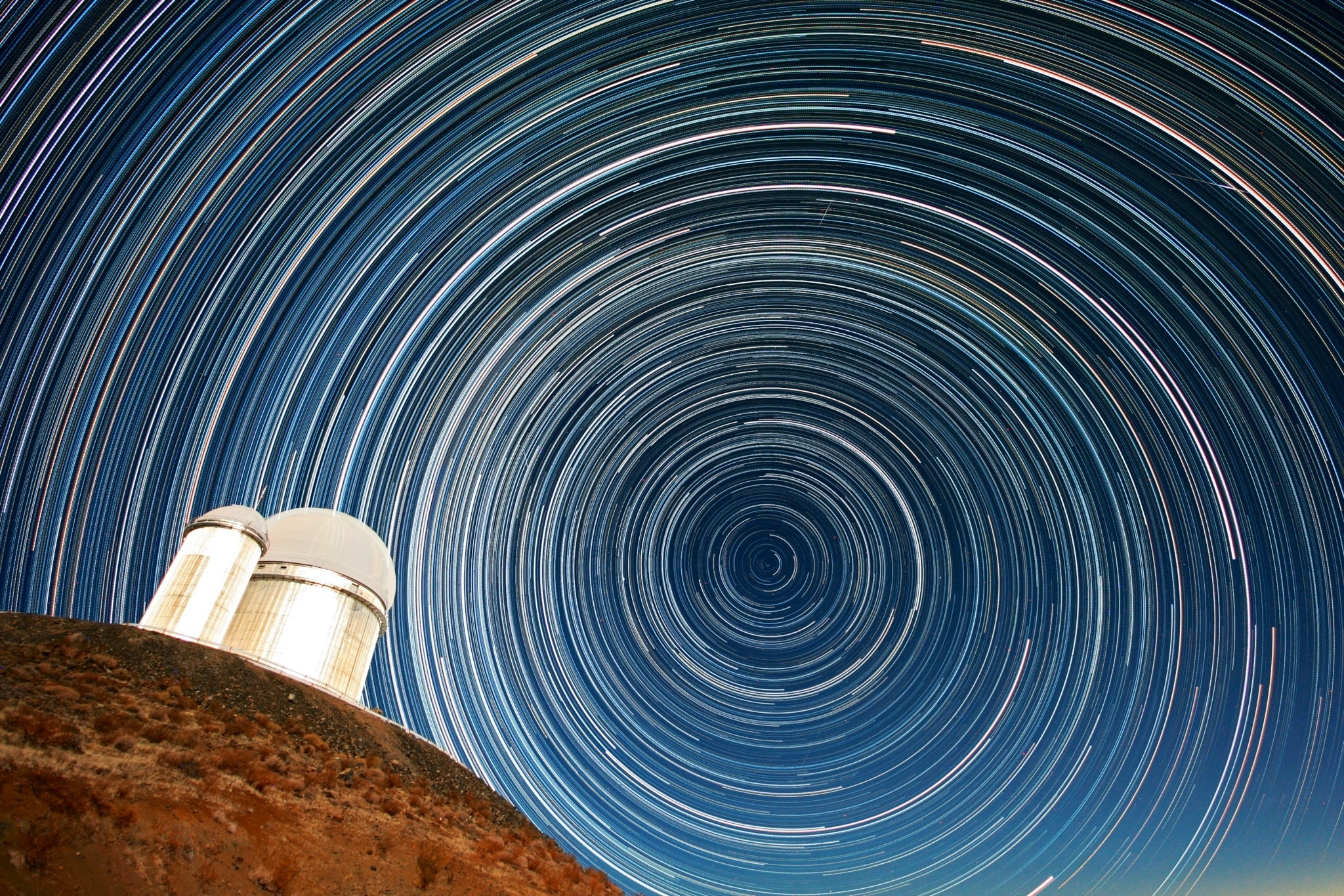 Star trails over the ESO 3.6-metre Telescope, which hosts HARPS, the High Accuracy Radial velocity Planet Searcher, the world's foremost exoplanet hunter. This image comes from Your ESO Pictures Flickr Group, where anyone can submit photos connected with ESO.